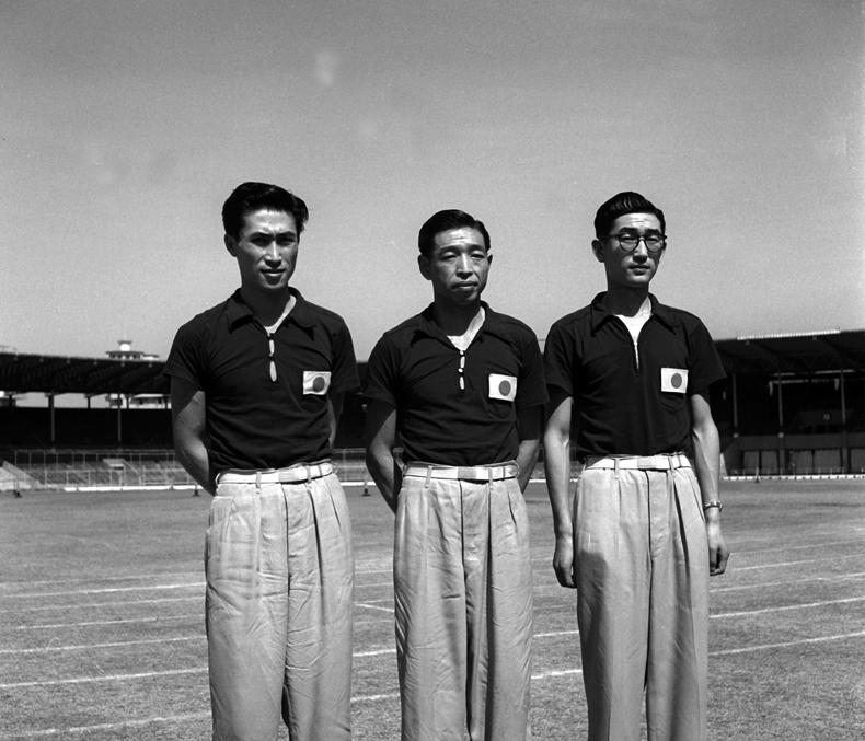 Studio/Feb.52,A39aJAPANESE TABLE TENNIS (MEN’S) TEAM:(L. to R.): Norikazu Fujii (Captain of the Team): Nishimura and Satoh.